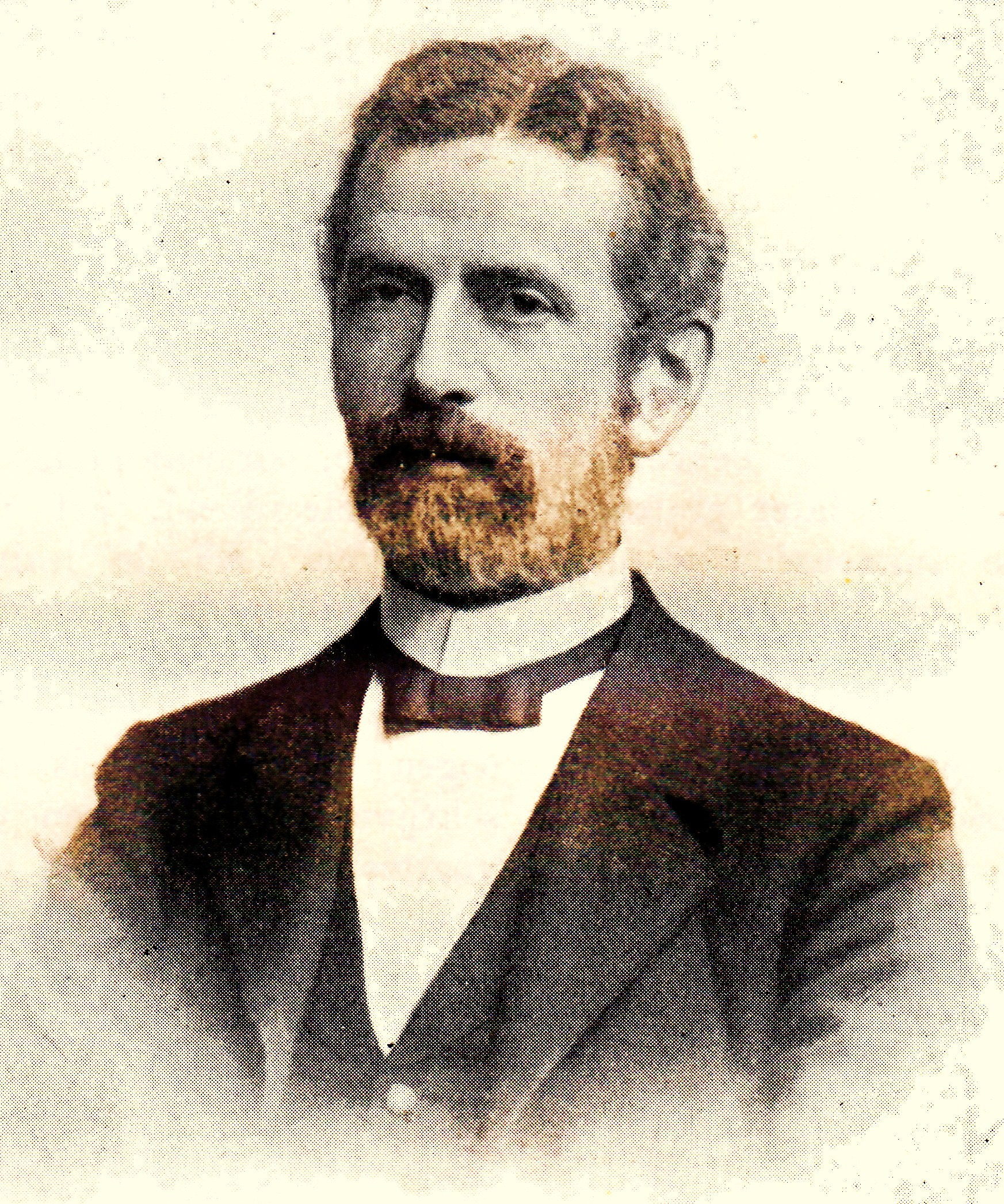 Mr Carel Asser